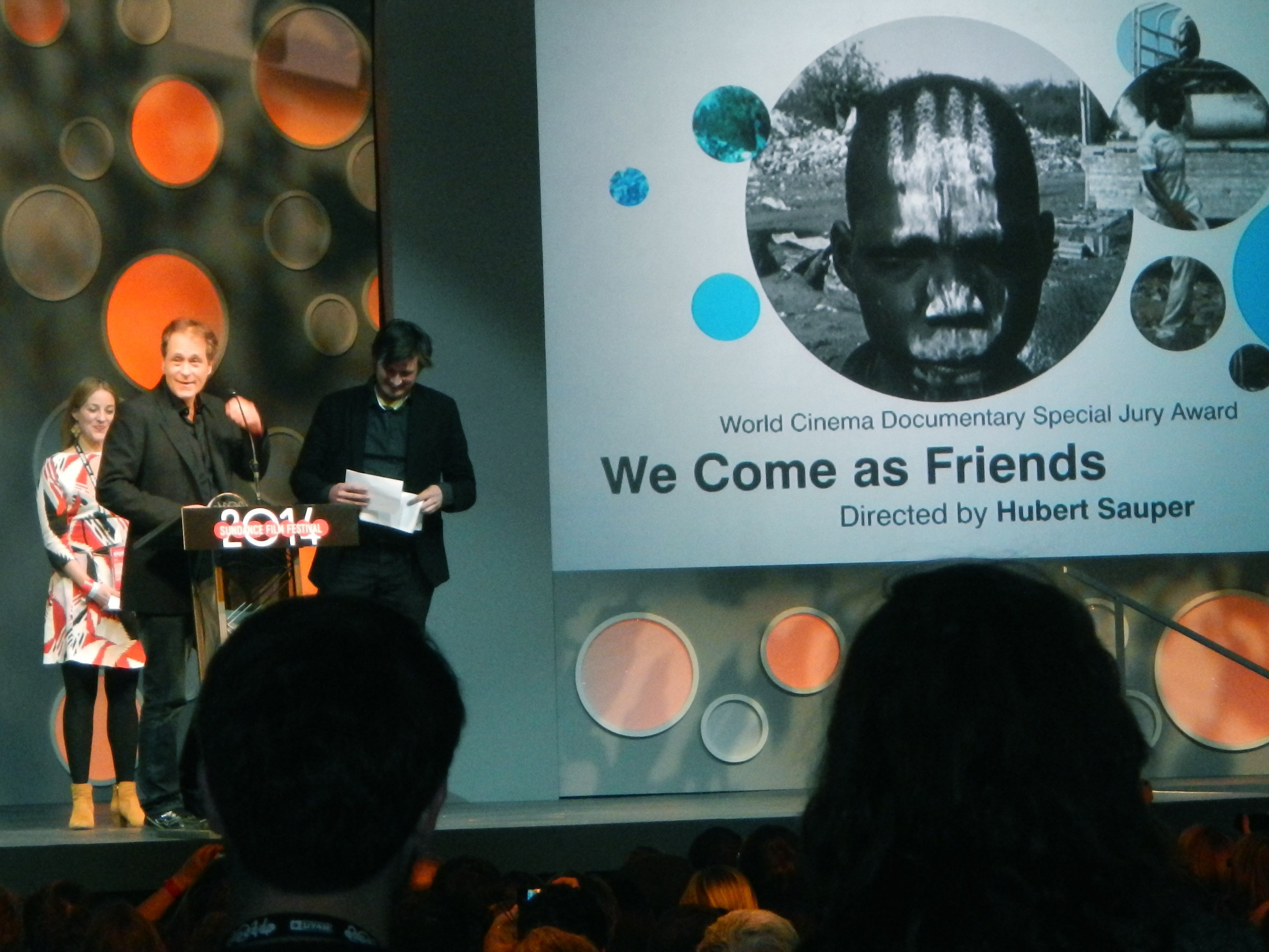 Hubert Sauper at the Sundance 2014 Awards Ceremony